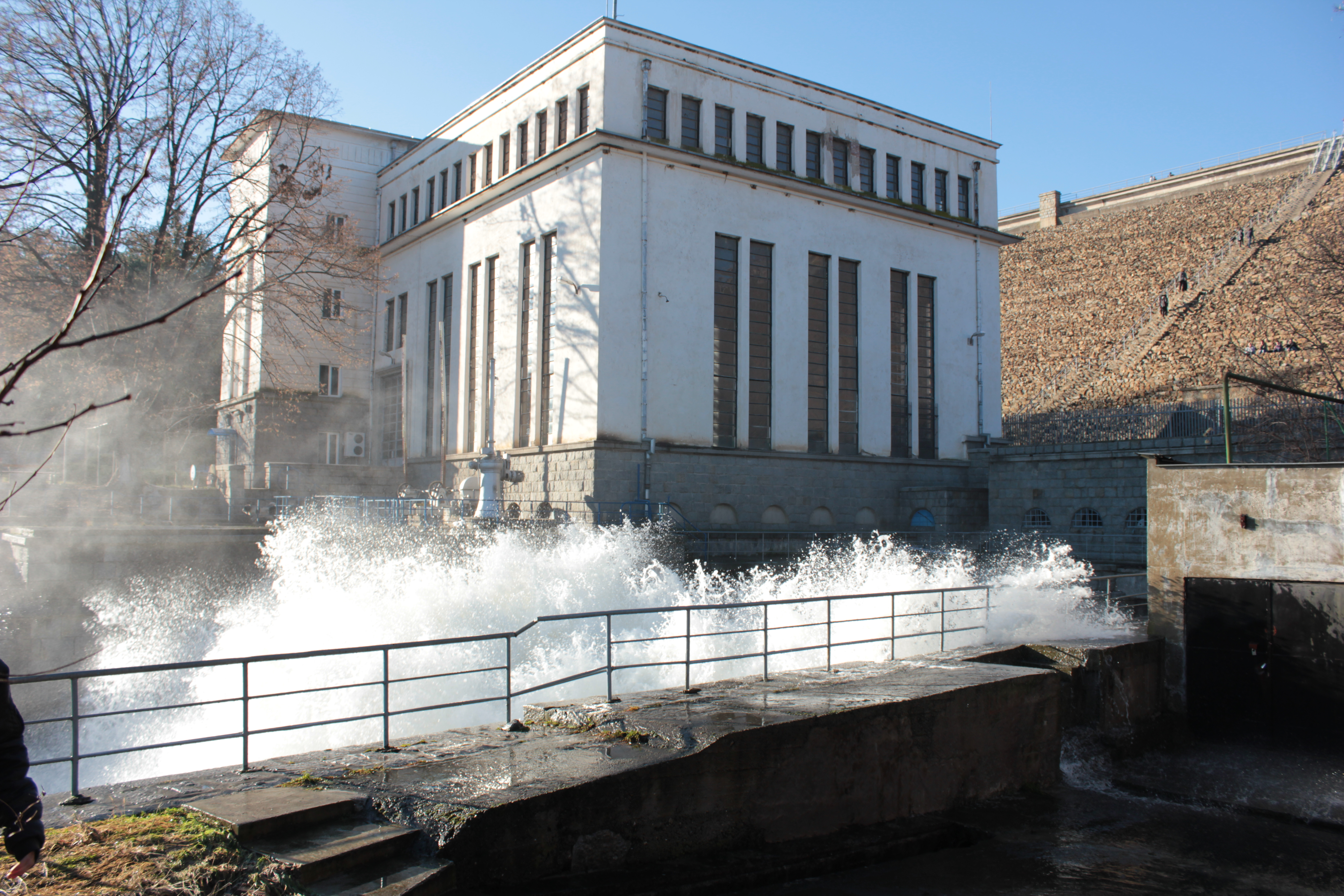 Koprinka Dam Power station